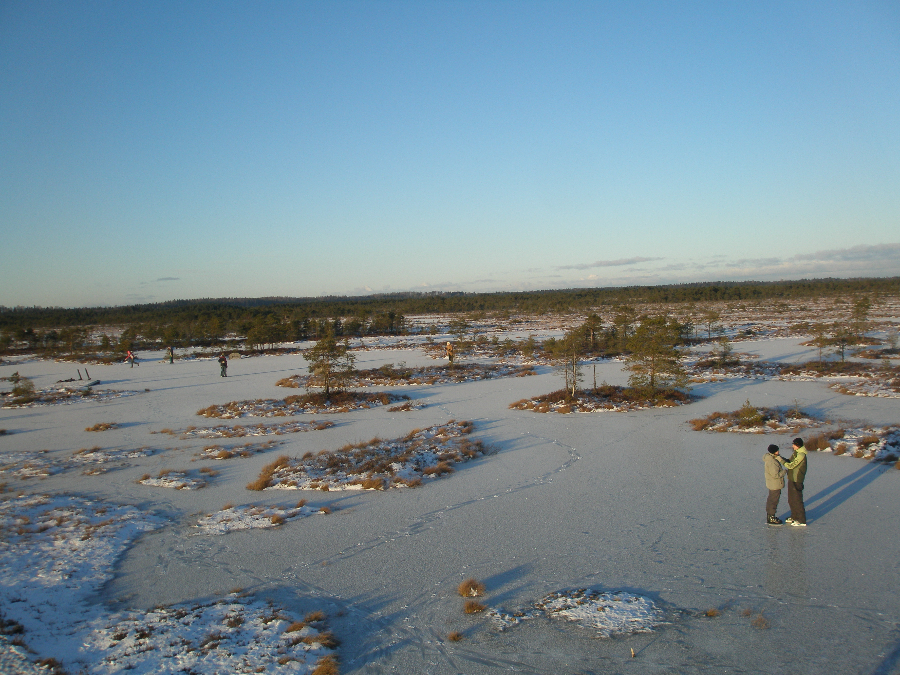 Winter in Keava bog